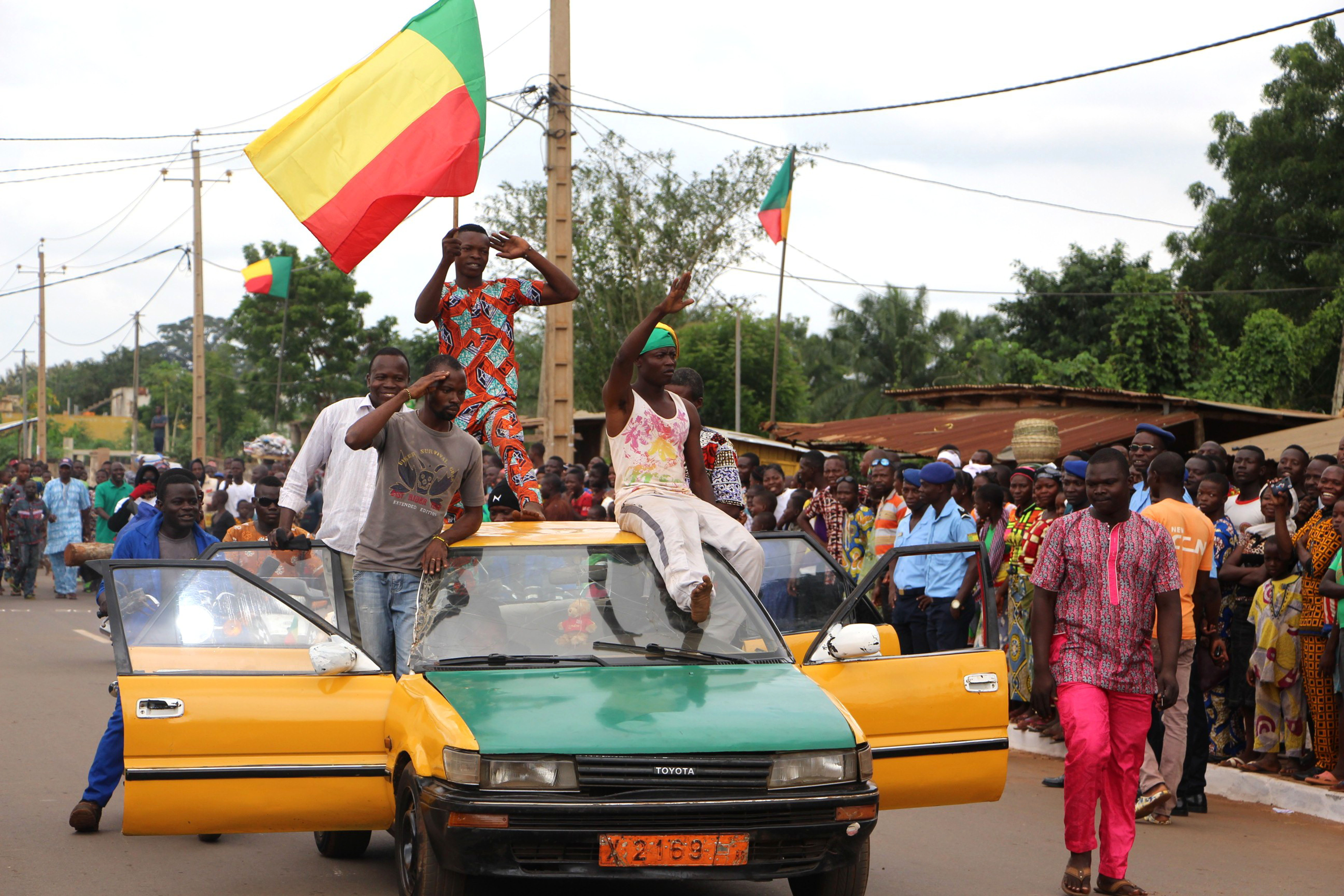 Beninese independence day, civilians parade in their own way This is an image with the theme "Africa on the Move or Transport" from: Benin